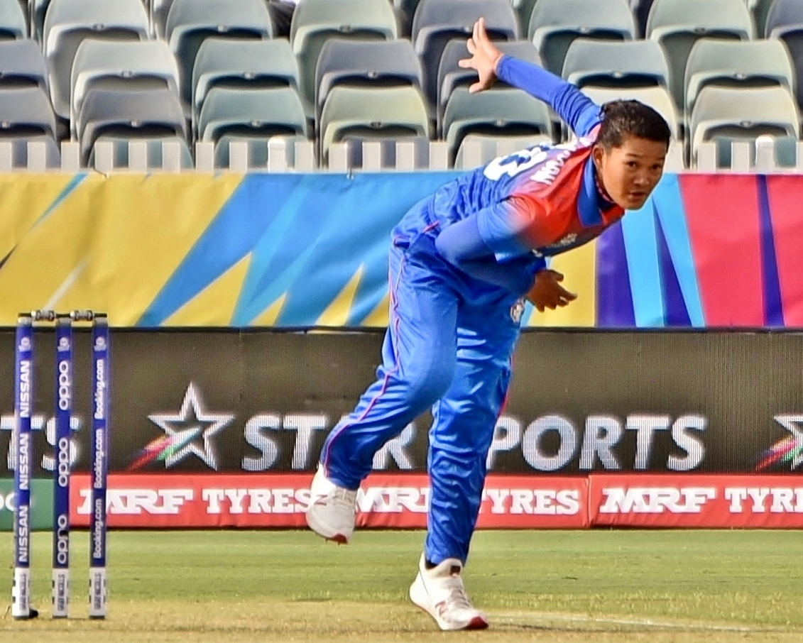 Ratanaporn Padunglerd bowling for Thailand against the West Indies during their 2020 ICC Women's T20 World Cup match at the WACA Ground in Perth, Australia